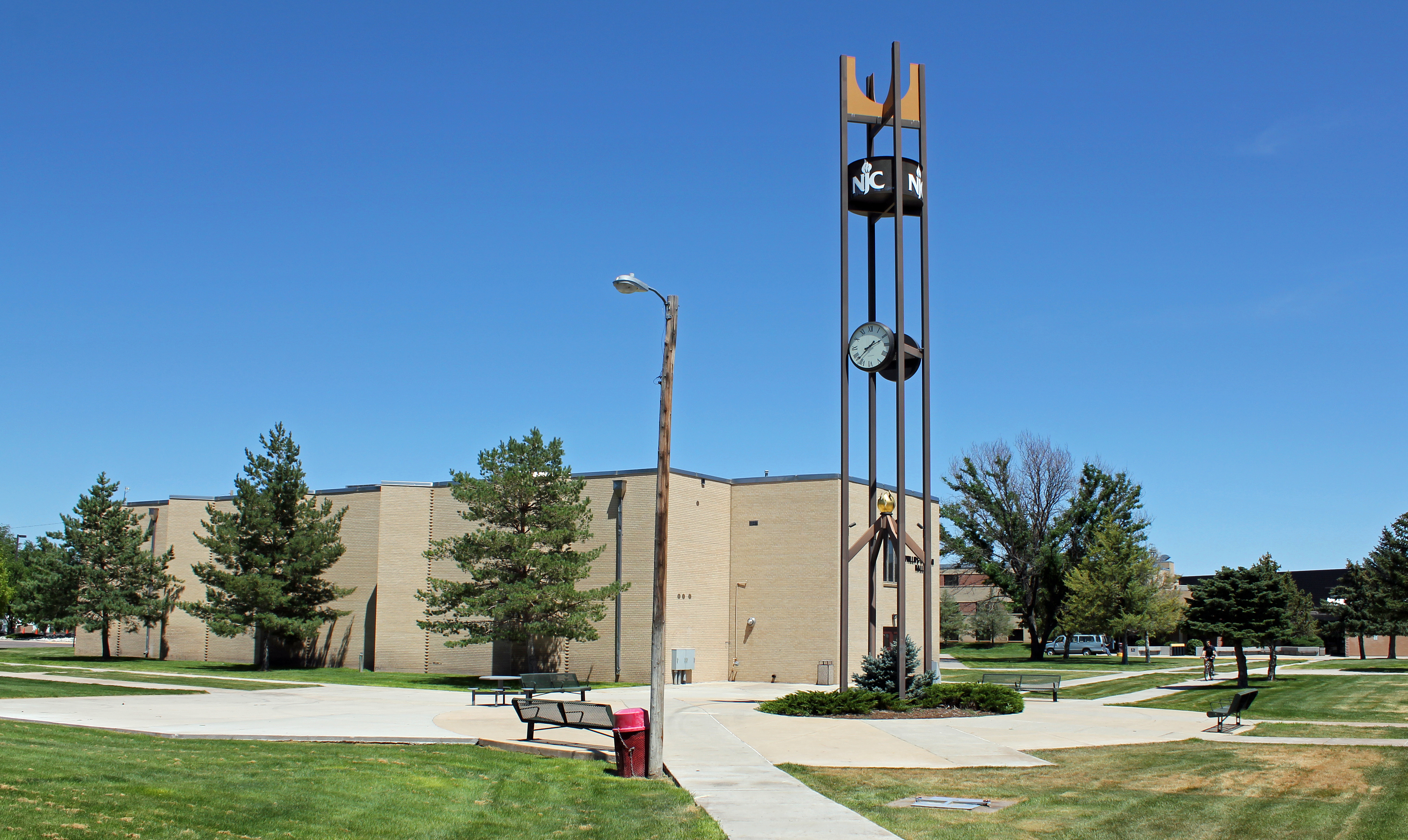 The central part of the Northeastern Junior College campus in Sterling, Colorado, showing the quad, and the clock tower, and one of the campus buildings.